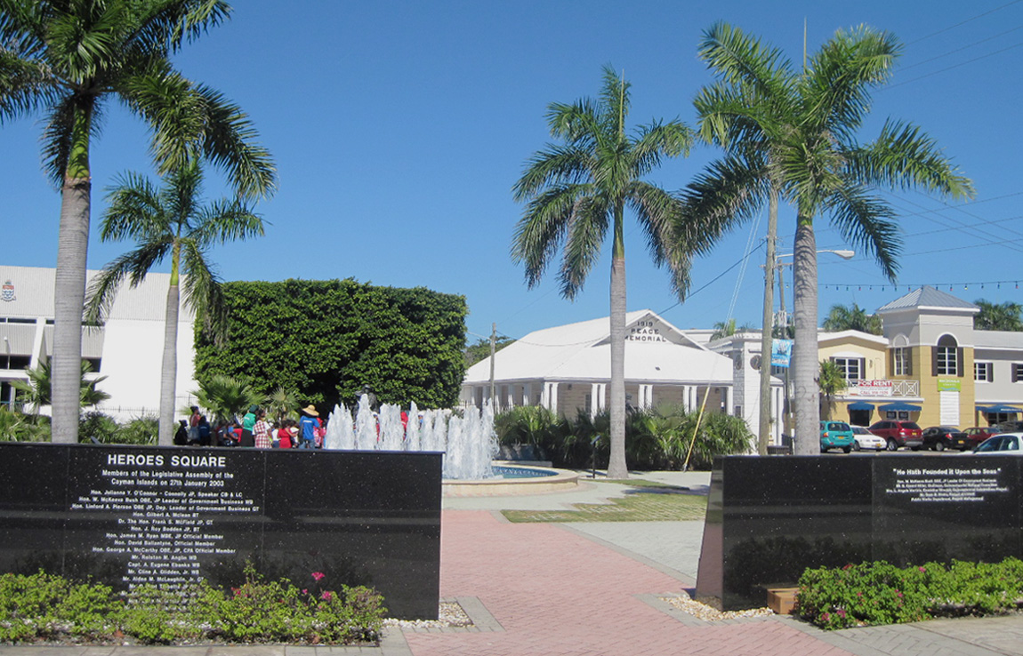 Heroes Square, commemorating Cayman Islands' war dead, is in the center of George Town. The Legislative Assembly building is at the left. The 1919 Peace Memorial is at right center, with the Town Clock to its right.